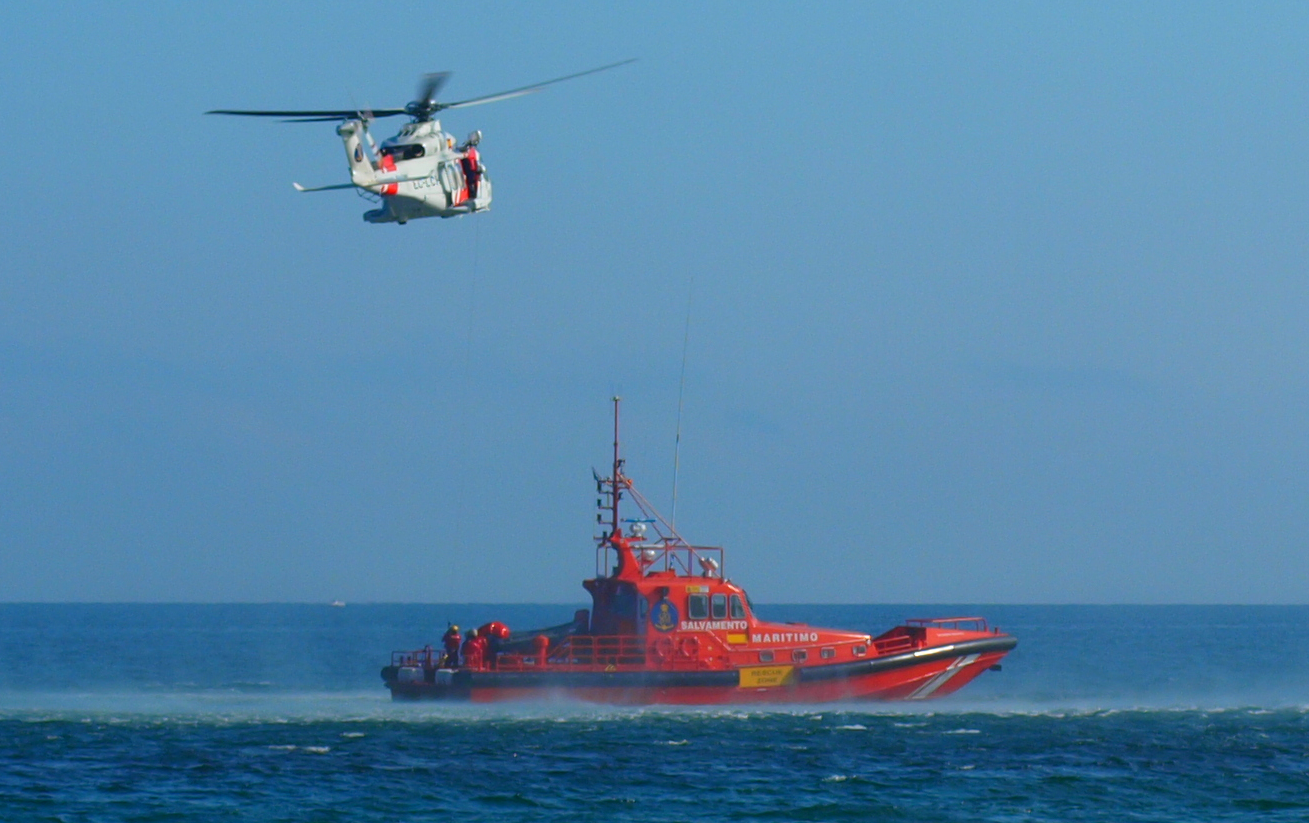 Festa al Cel 2010